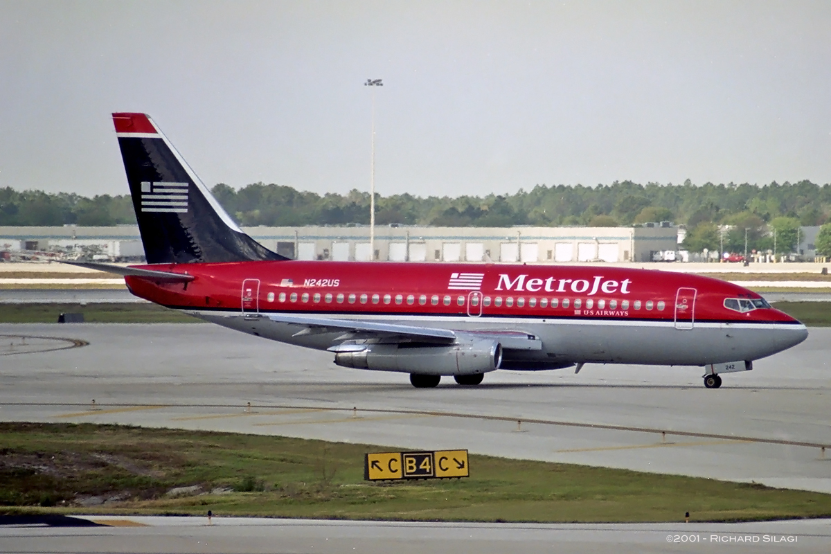 Metro Jet Boeing 737-200 N242US at KCMO in March 2001